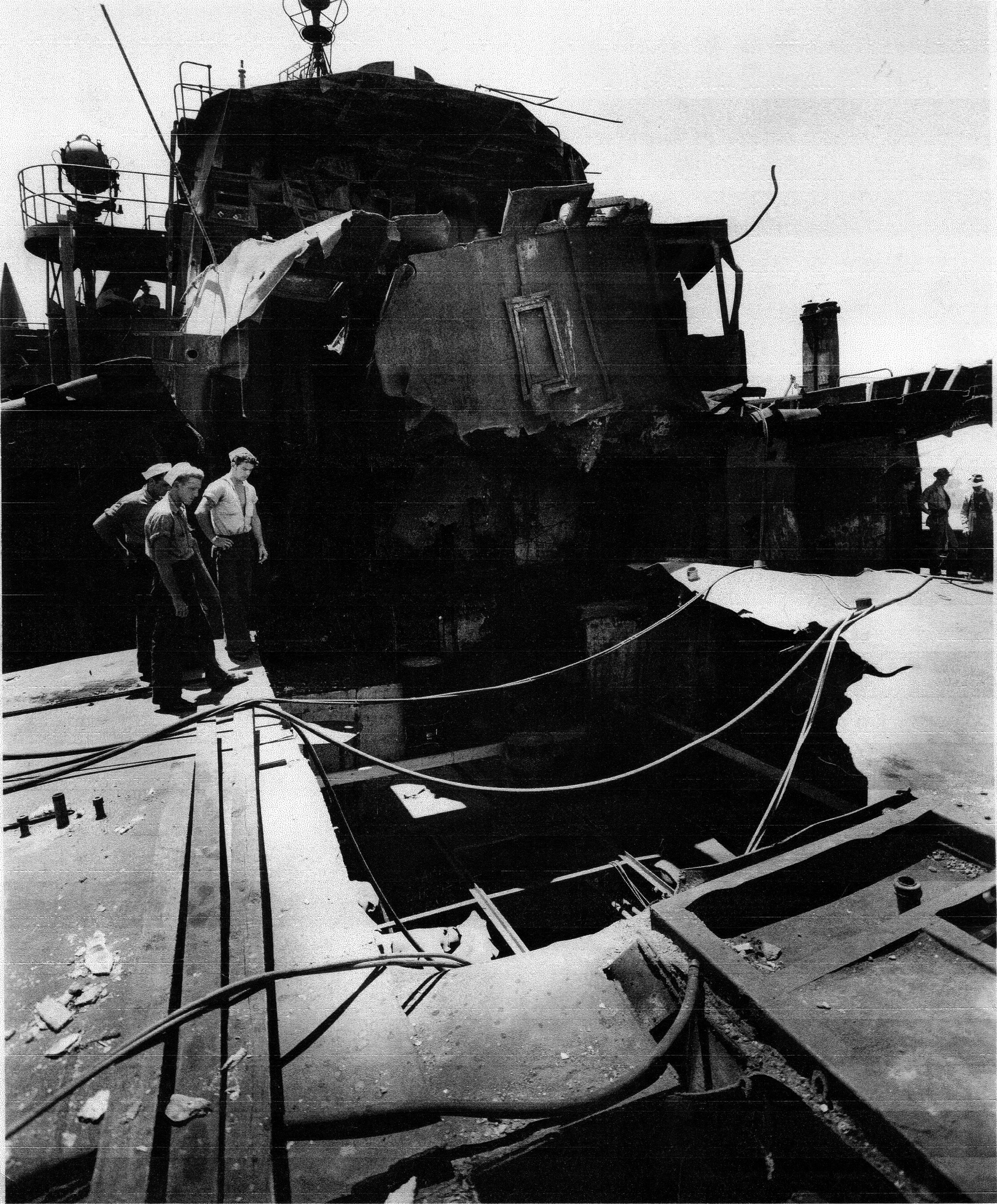 Damage from 28 April Kamikaze attack, showing hole that extends to boilers.